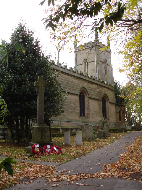 Parish Church of Saint Nicholas, Elmdon, Solihull, England. This picturesque small parish church is located immediately adjacent to Elmdon Park